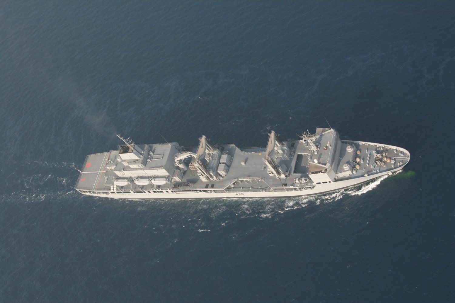 INS Aditya